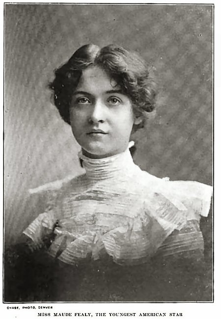 Actress Maude Fealy circa 1901